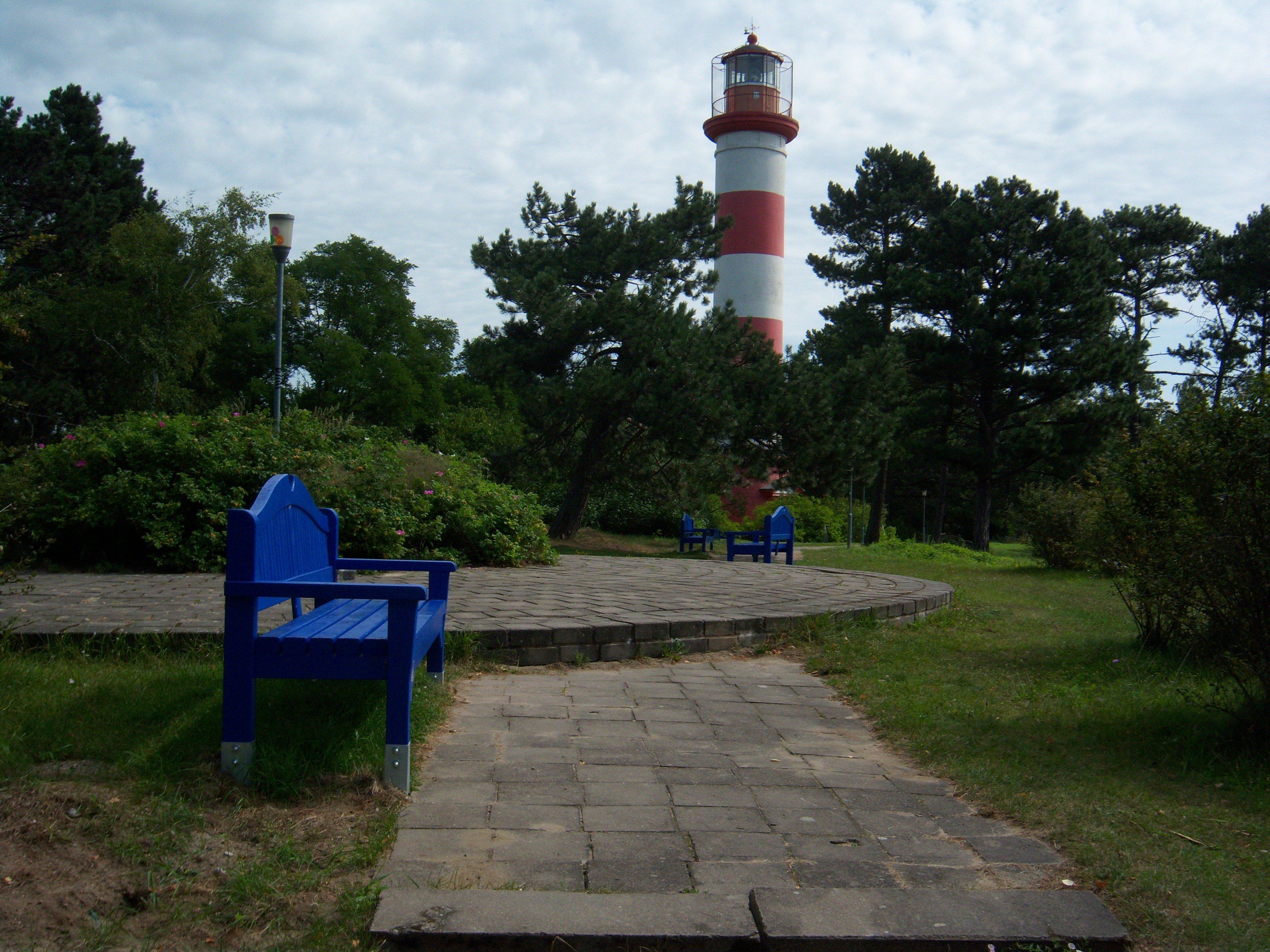 Nida lighthouse on Urbas Dune, Neringa, Lithuania